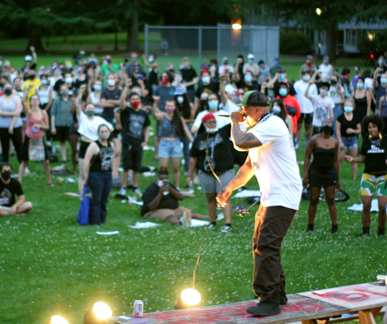 Mic Crenshaw performing at Reed College for a Black Lives Matter demonstration on the first day of sentencing of Jeremy Christian, which focused on white allies of Black Lives Matter. Protesters convened at Powell Park on SE 26th and Powell and marched to Reed College, with a detour along SE Reed College Place, and then back.